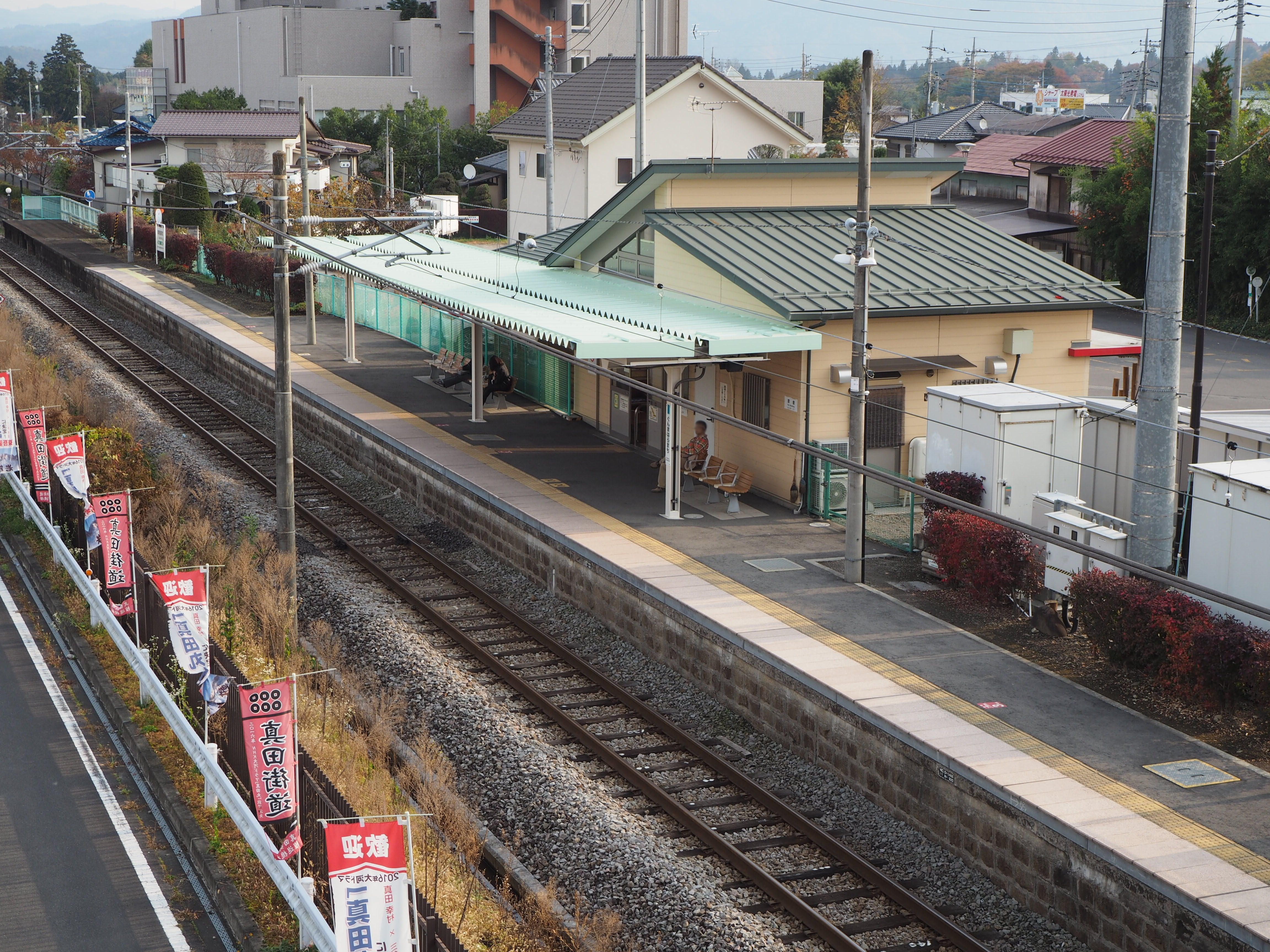 Platforms of Gunma-Haramachi Station